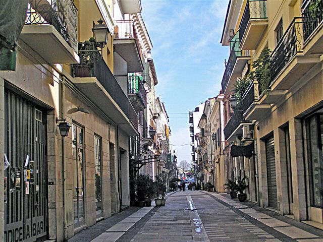 Пескара одна из улиц города.